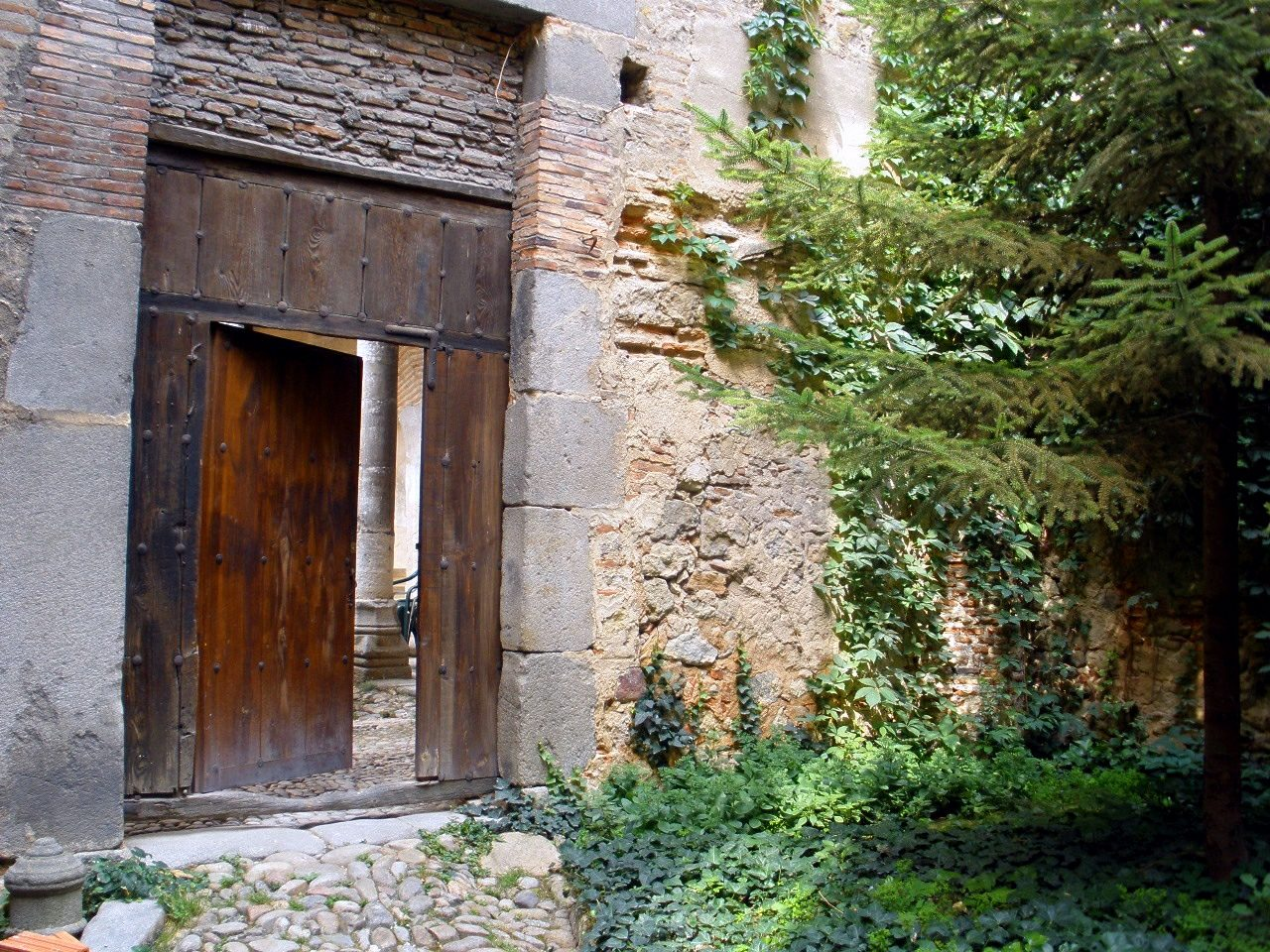 Casa noble en la calle Escuderos de Segovia